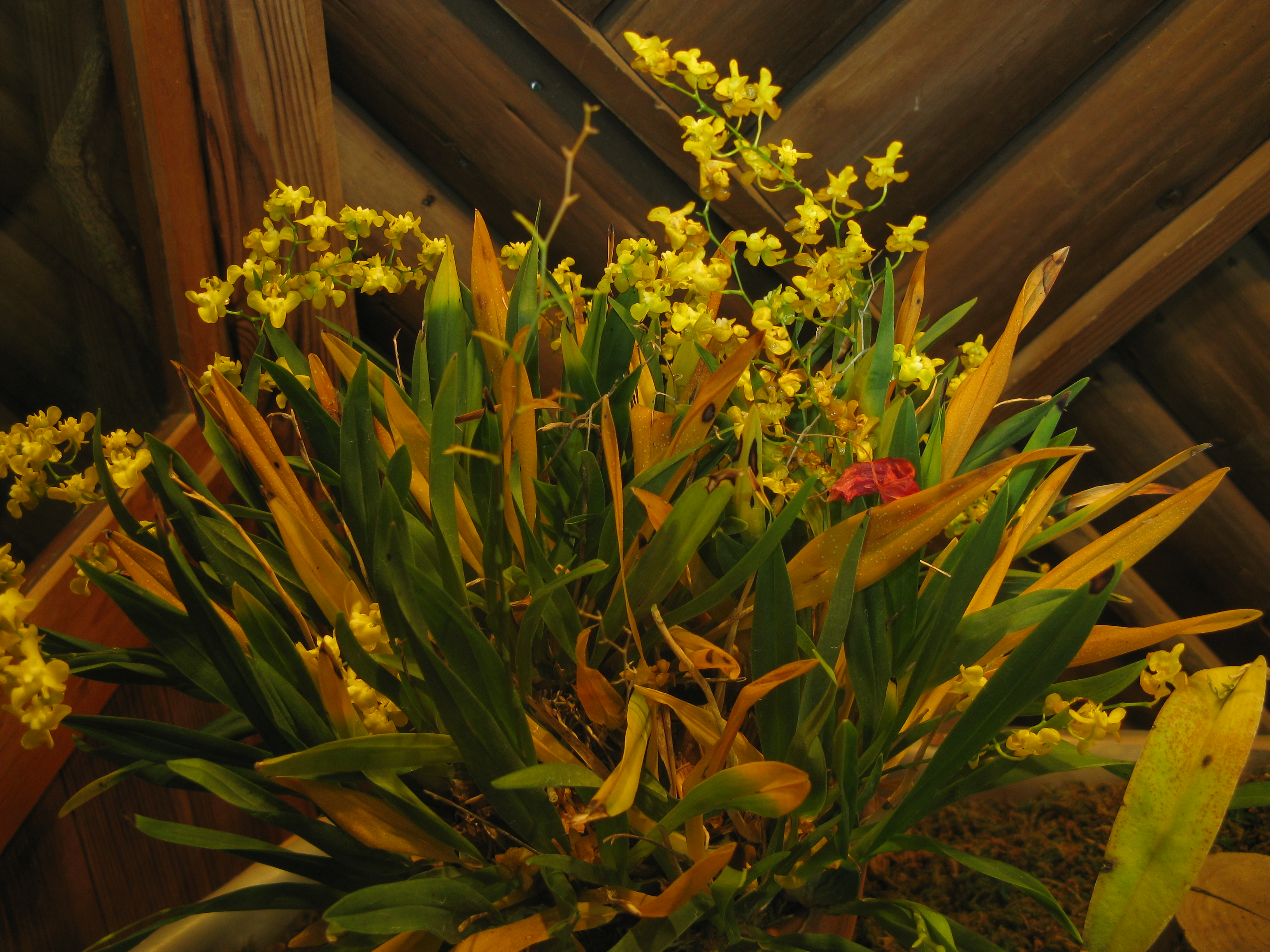 [Oncidium cheirophorum Place:Osaka Prefectural Flower Garden,Osaka,Japan